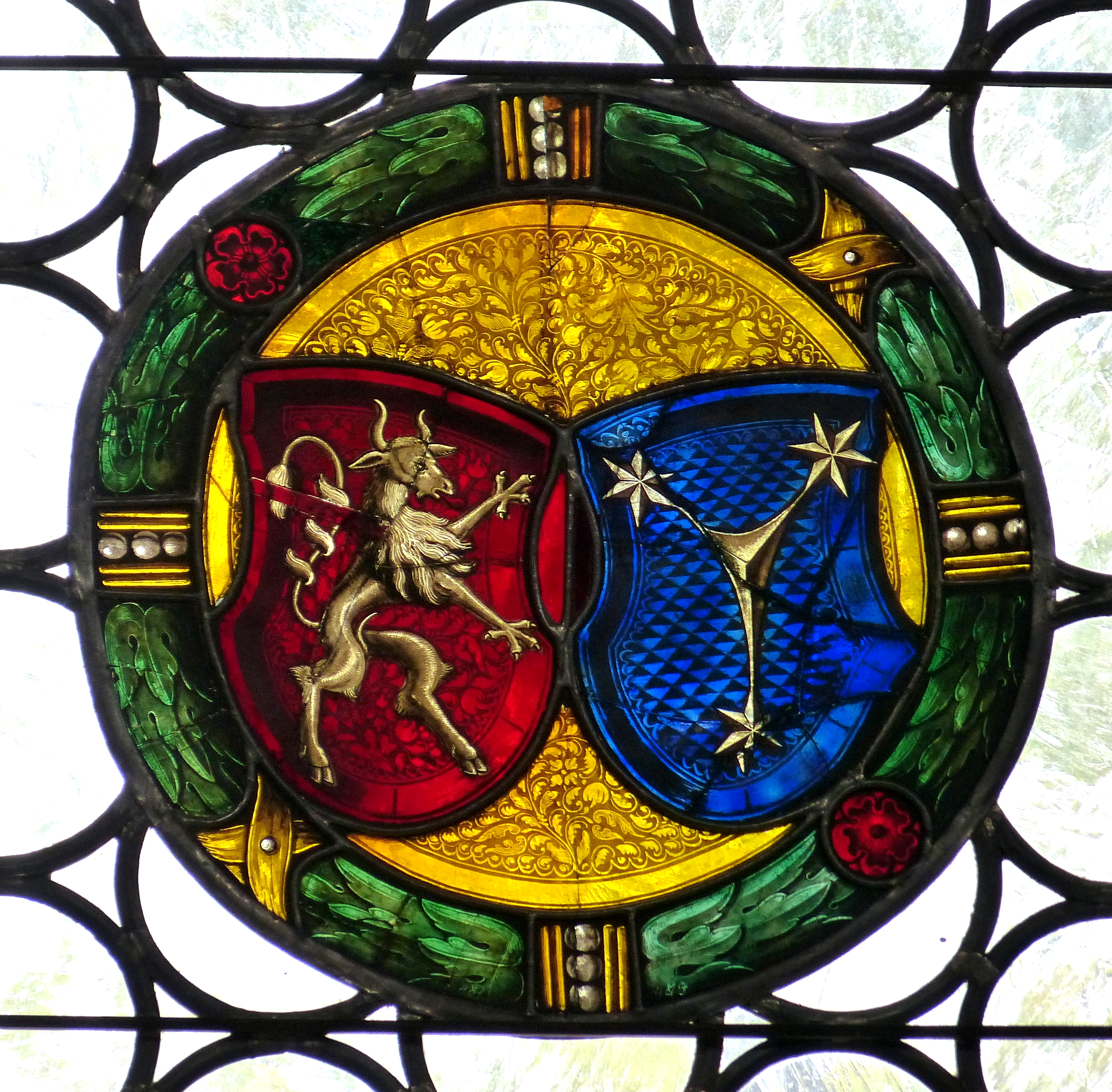 Nuremberg ( Middle Franconia ). Saint Lawrence parish church: Stained glass window ( 15th/16th century ) - Coats of arms of the Scheurl and Geuder families